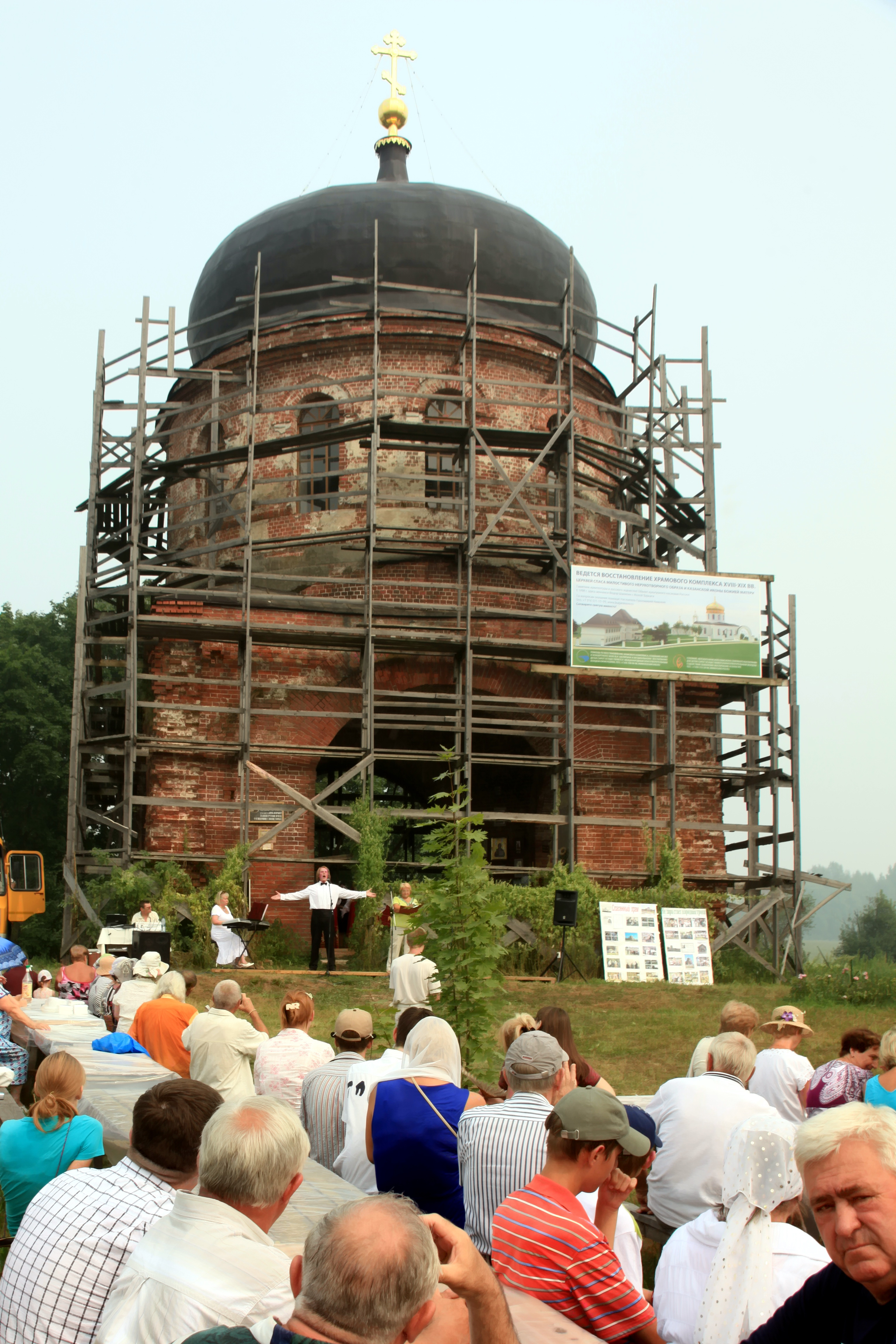 Chaliapin vocal festival in Gagino, Moscow region, Russia. Our Lady of Kazan church at the background.